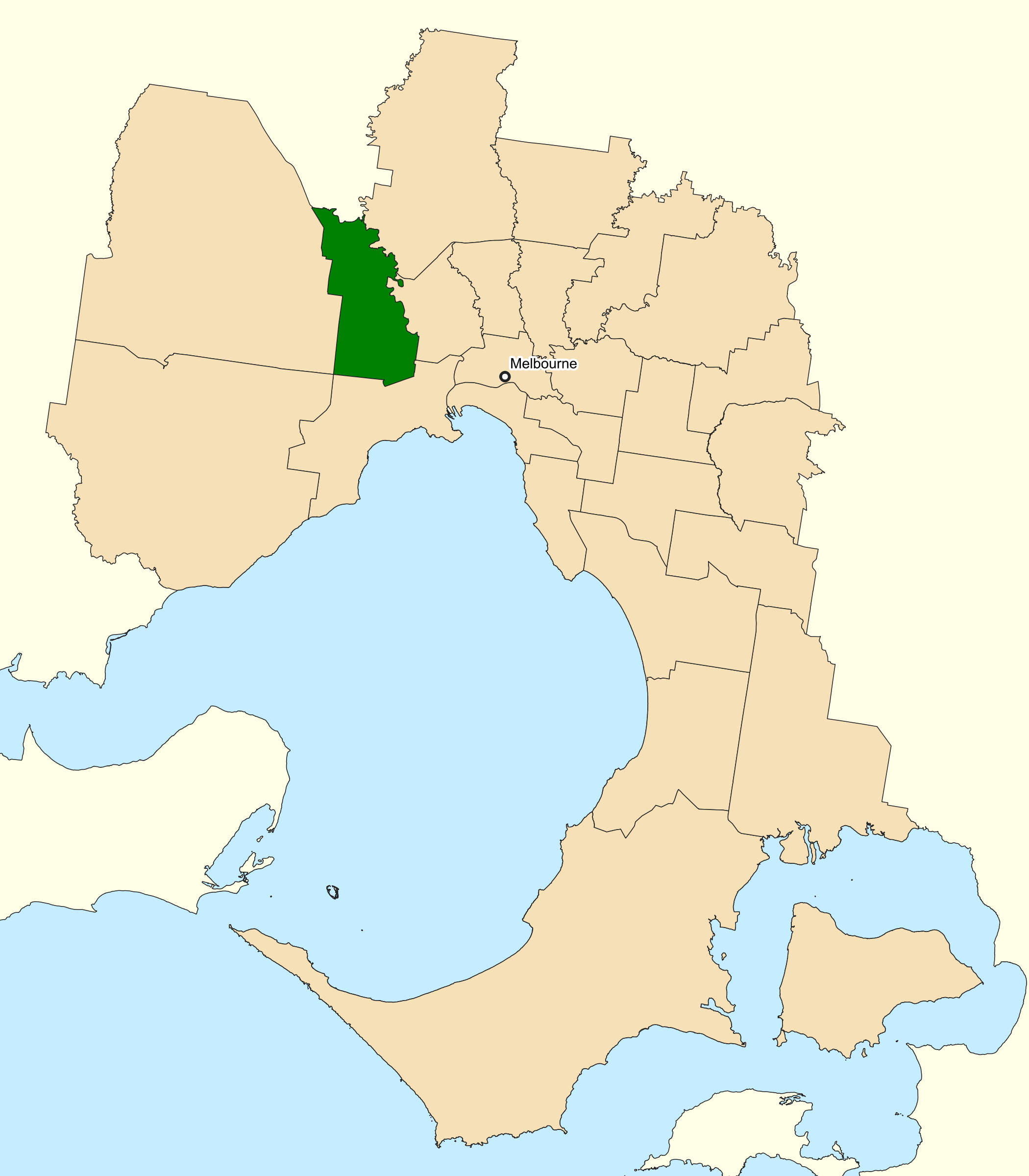 Location of the Australian federal electoral division of Fraser (dark green) in Greater Melbourne, Victoria as of the 2019 Australian federal election. Incorporates or developed using Administrative Boundaries ©PSMA Australia Limited licensed by the Commonwealth of Australia under Creative Commons Attribution 4.0 International licence (CC BY 4.0).